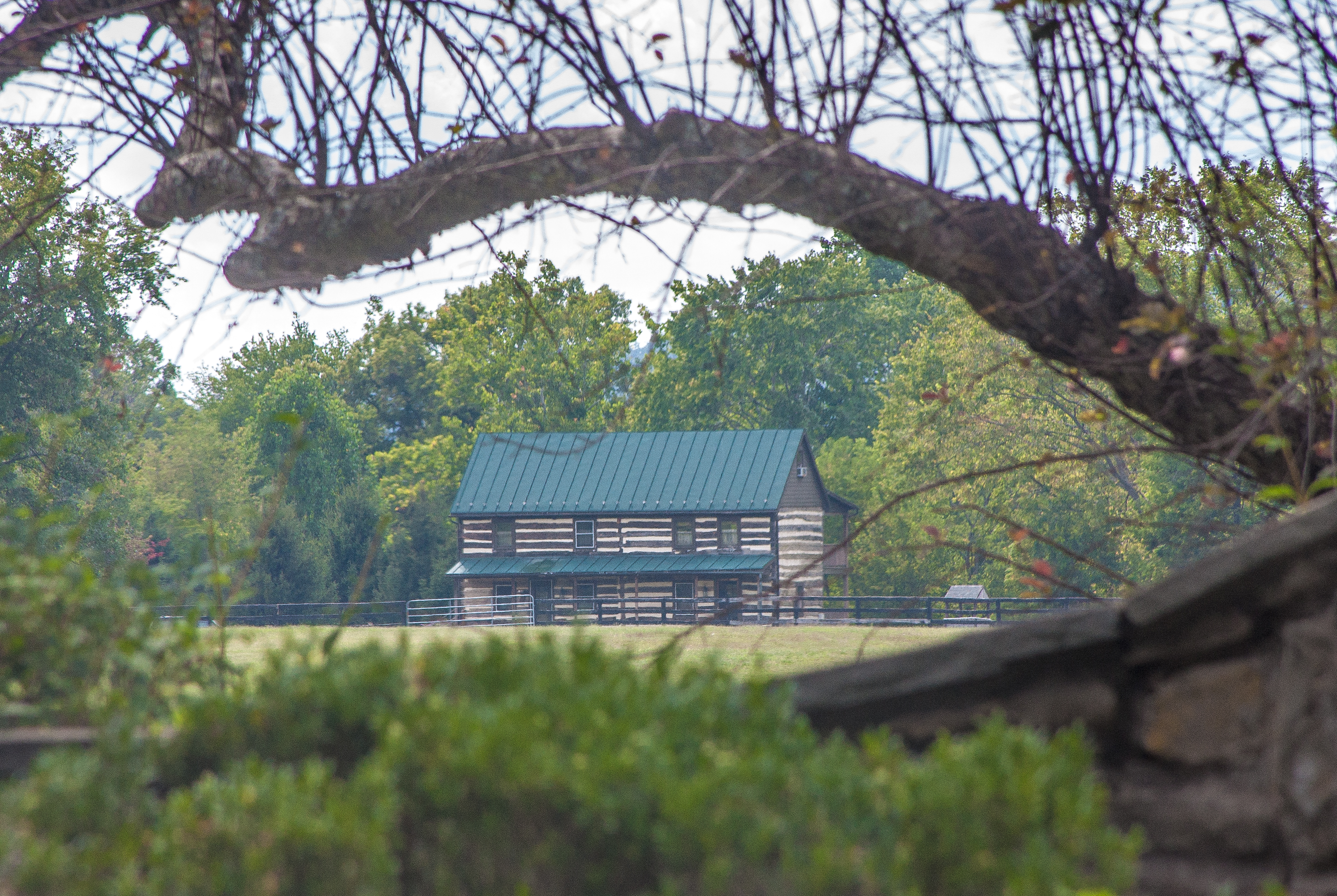 Rokeby